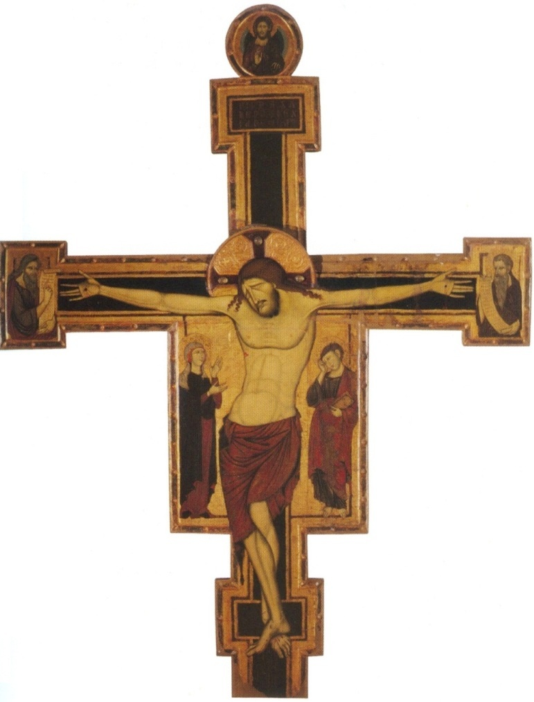 Crucifix with Mourners, the Prophets Isaiah and Jeremiah and Christ Giving His Blessing.